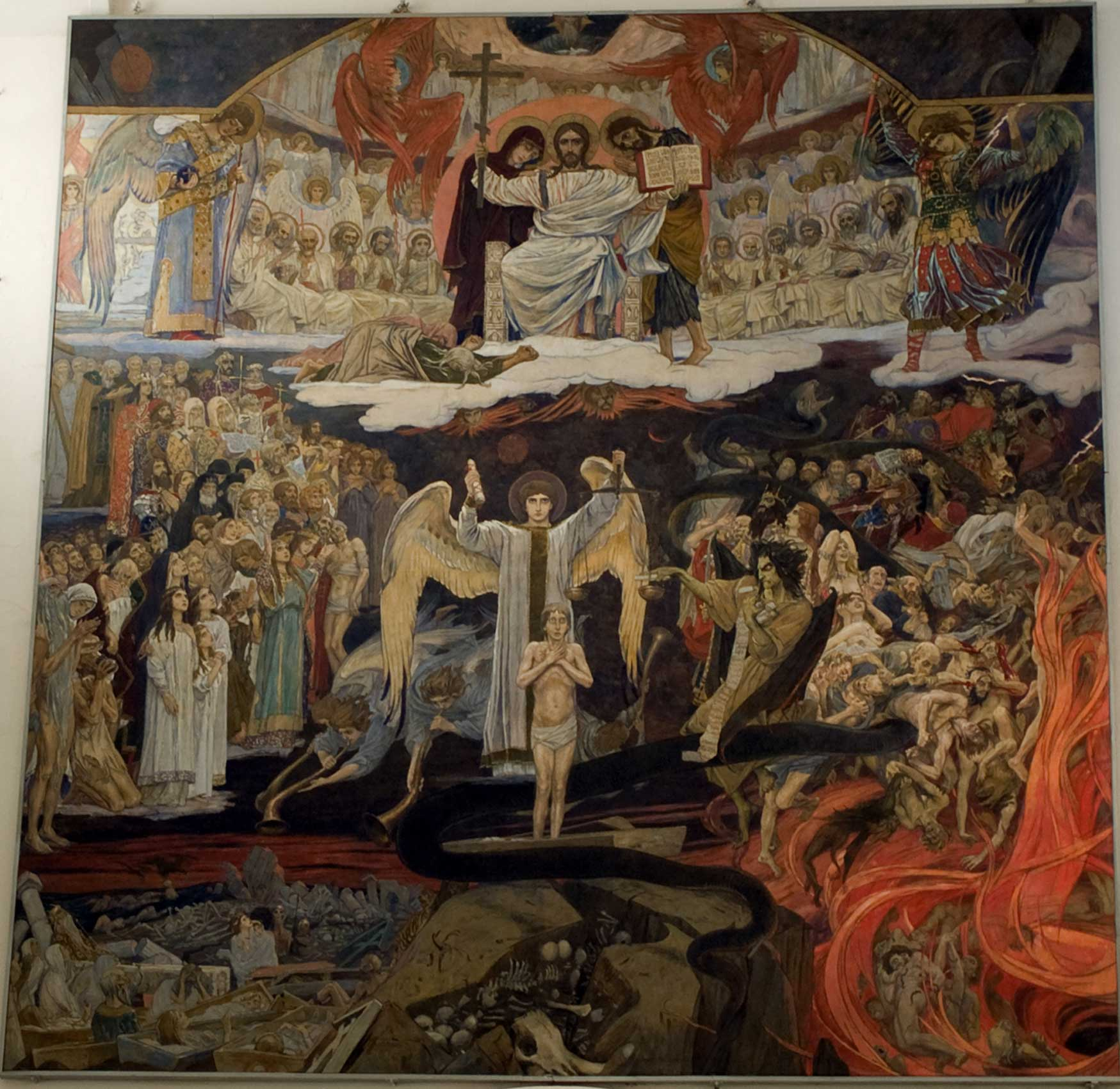 Photograph of "The Last Judgement" by Viktor Vasnetsov 1904. Oil on canvas 690*700. Located in the Crystal Museum, St. George's Cathedral, Gus Khrustalny, Vladimir Region, Russia.